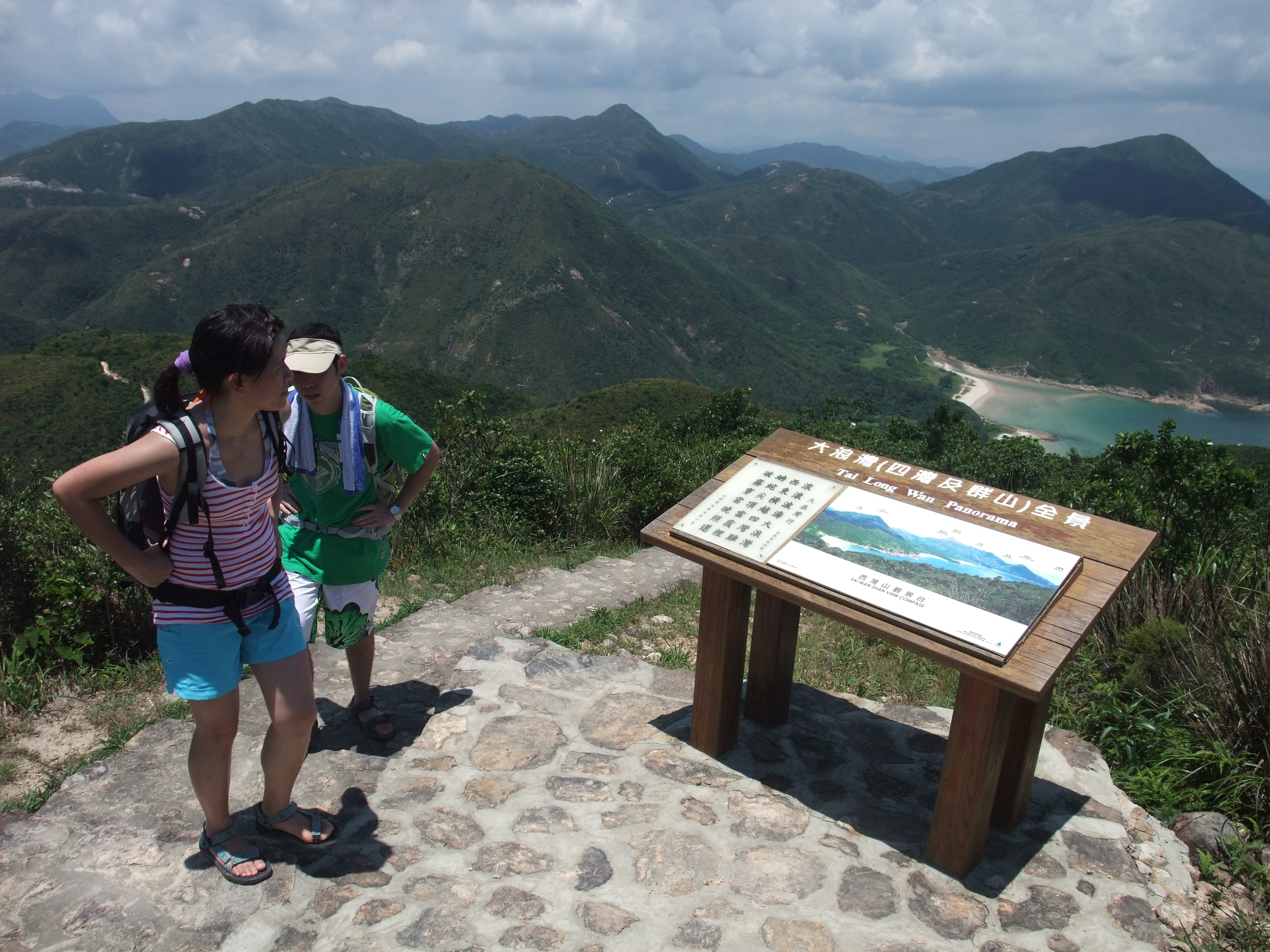 Photo of Sai Wan Shan View Compass